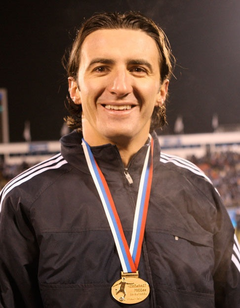 Kamil Čontofalský as a player of FC Zenit St. Petersburg